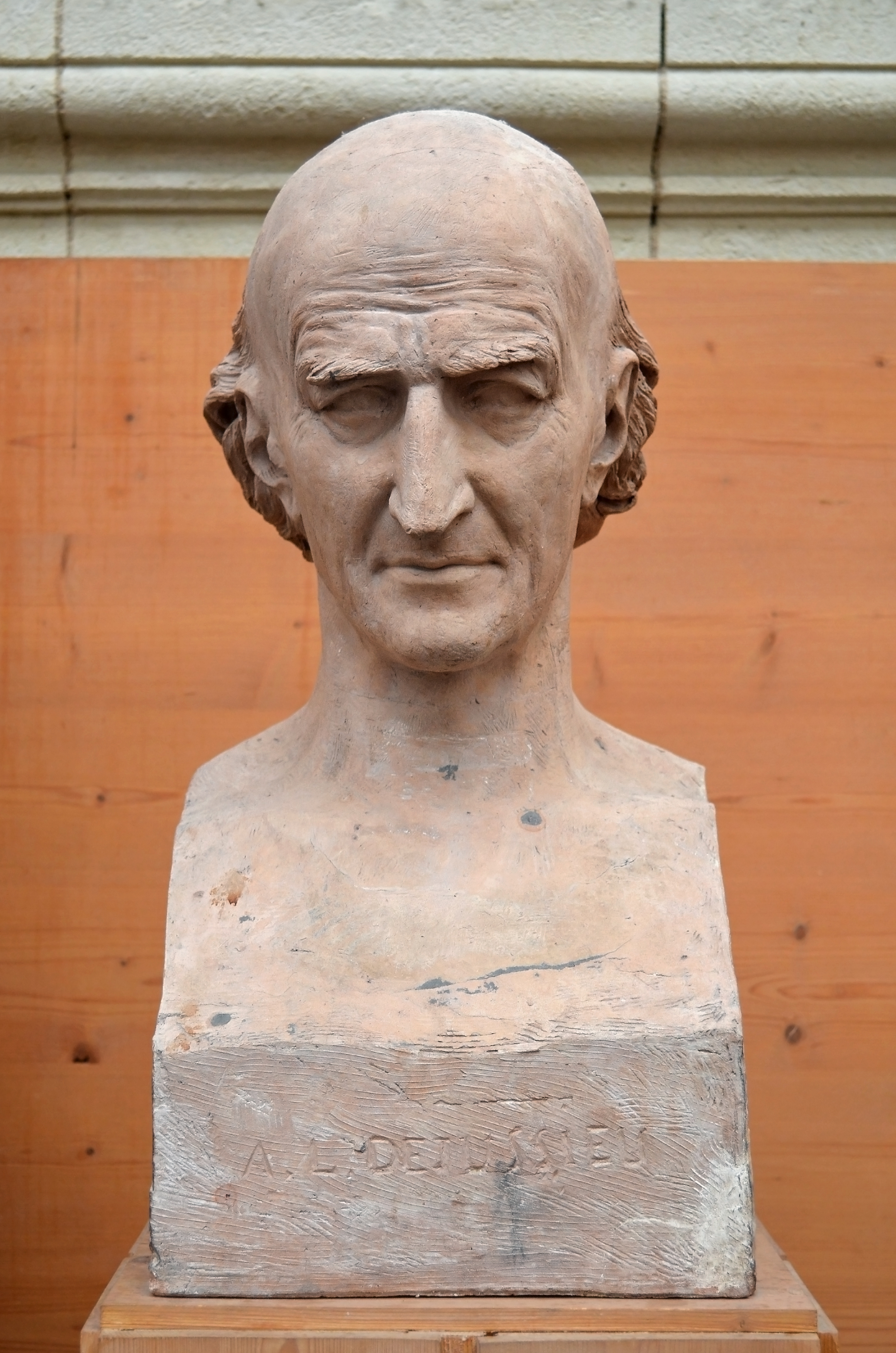 Bust of Antoine Laurent de Jussieu by french sculptor David d'Angers (1837). Exhibited in David d'Angers gallery, Angers, France